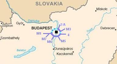 Location of motorway M0 on the map of Hungary.